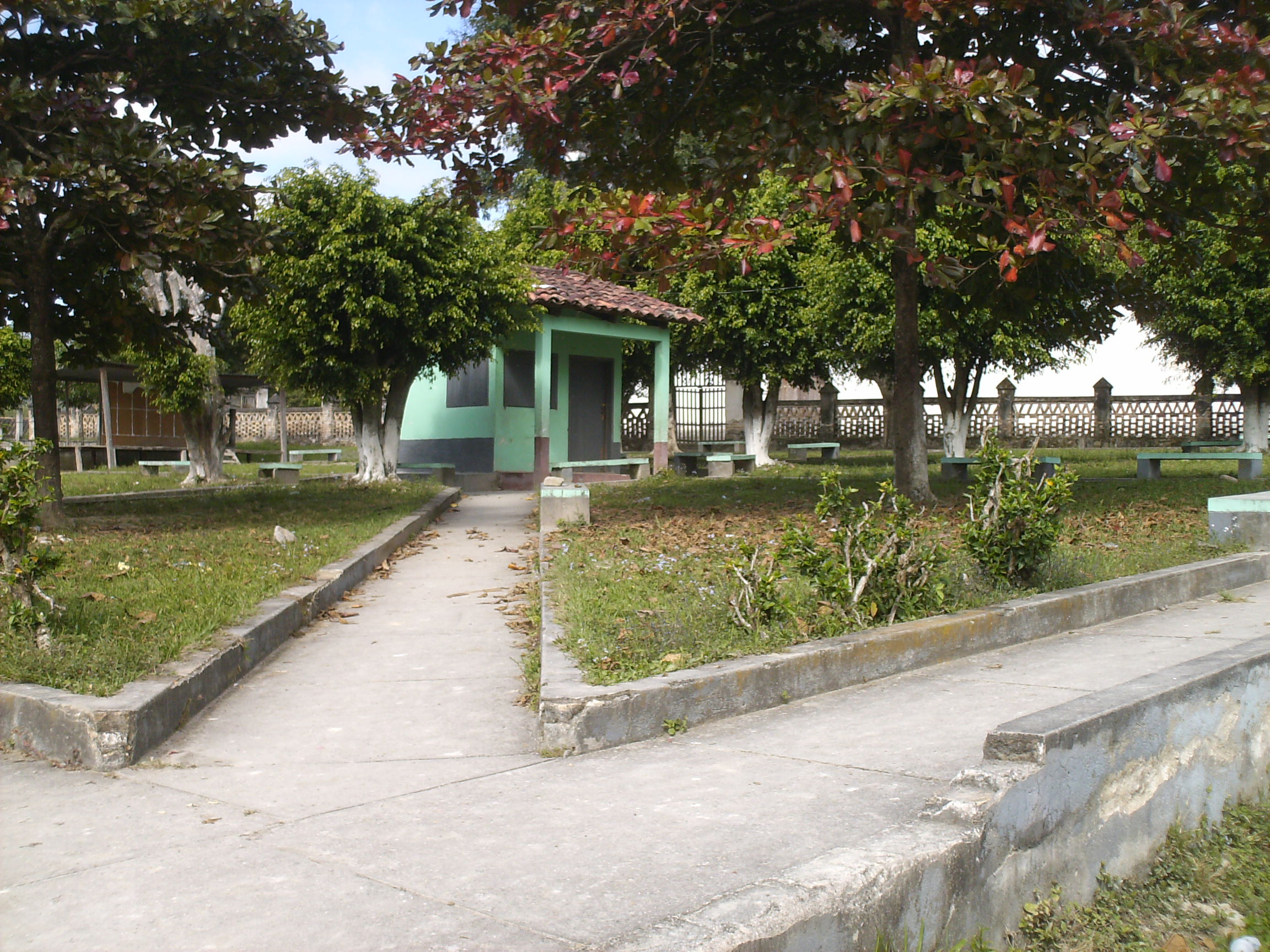 La Iguala, municipality in the Honduran department of Lempira.